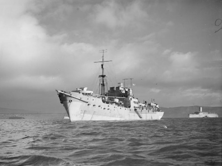 HMS LARGS moored at Greenock. Formerly the CHARLES PLUMIER a French Armed Merchant Cruiser, captured by the destroyer HMS FAULKNOR on 22 November 1940, off Gibraltar.